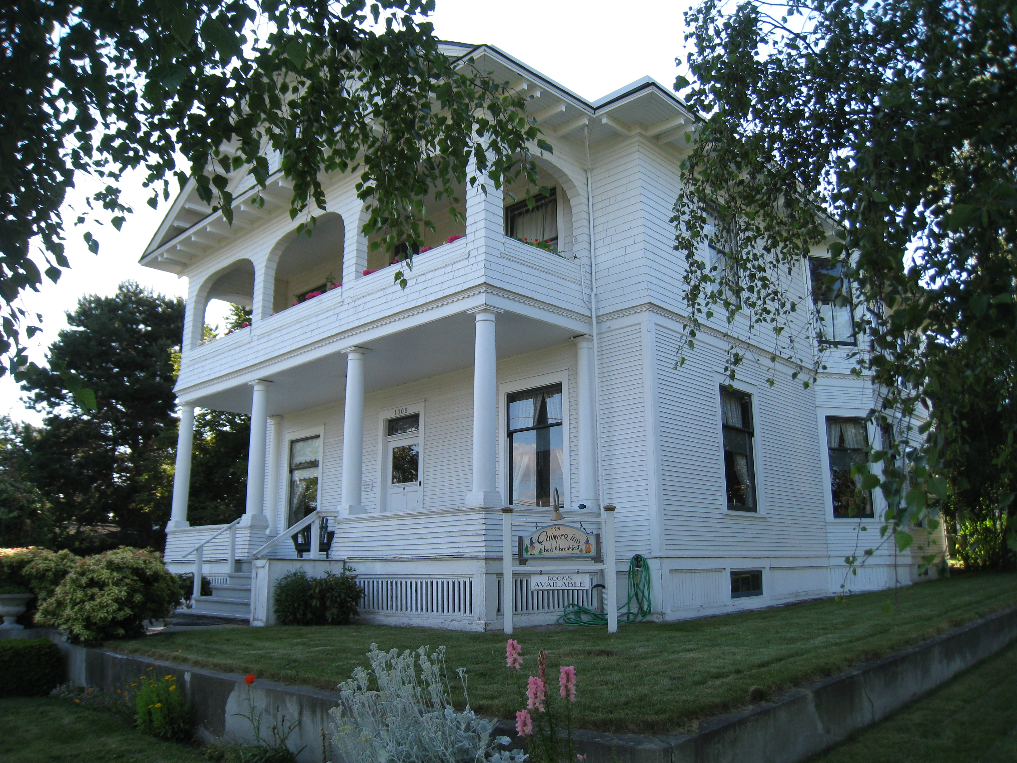 Barthrop House (now Quimper Inn) in Port Townsend, WA. Within the Port Townsend Historic District.